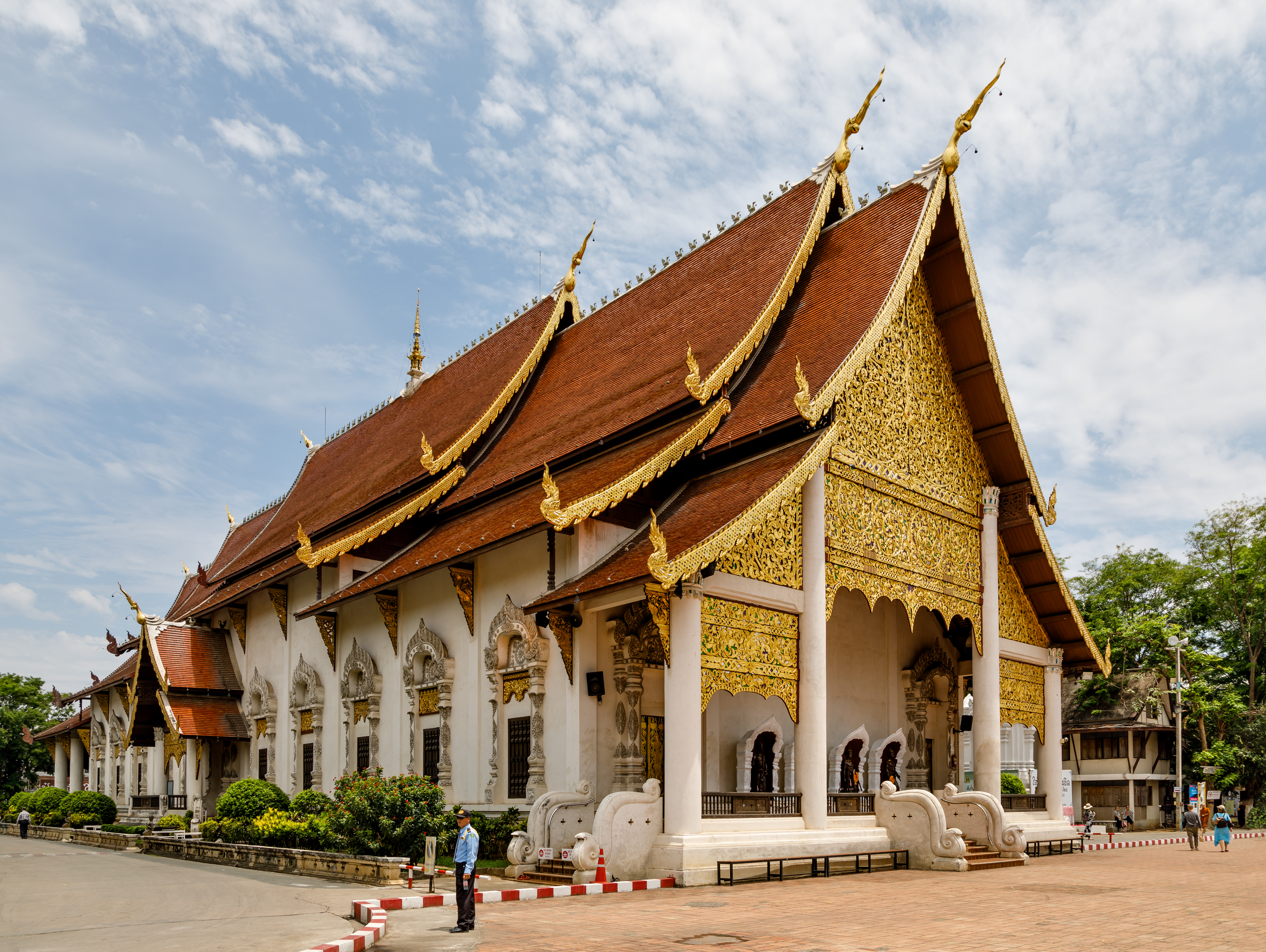 Chiang Mai, Thailand: Wat Chedi Luang